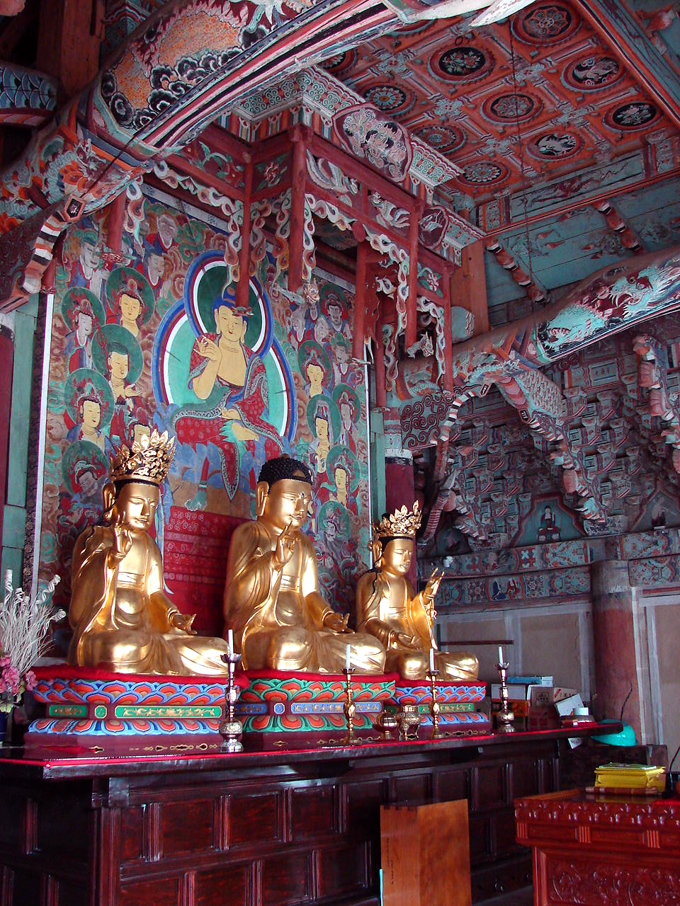 Geumtapsa is at the base of Mount Cheondeungsan in Goheung county originally dates to the 7th century when it was built as a branch of Songgwangsa Temple. One of the more prominent featuers is Natural Monument no. 239, the nutmeg forest that surrounds the temple.